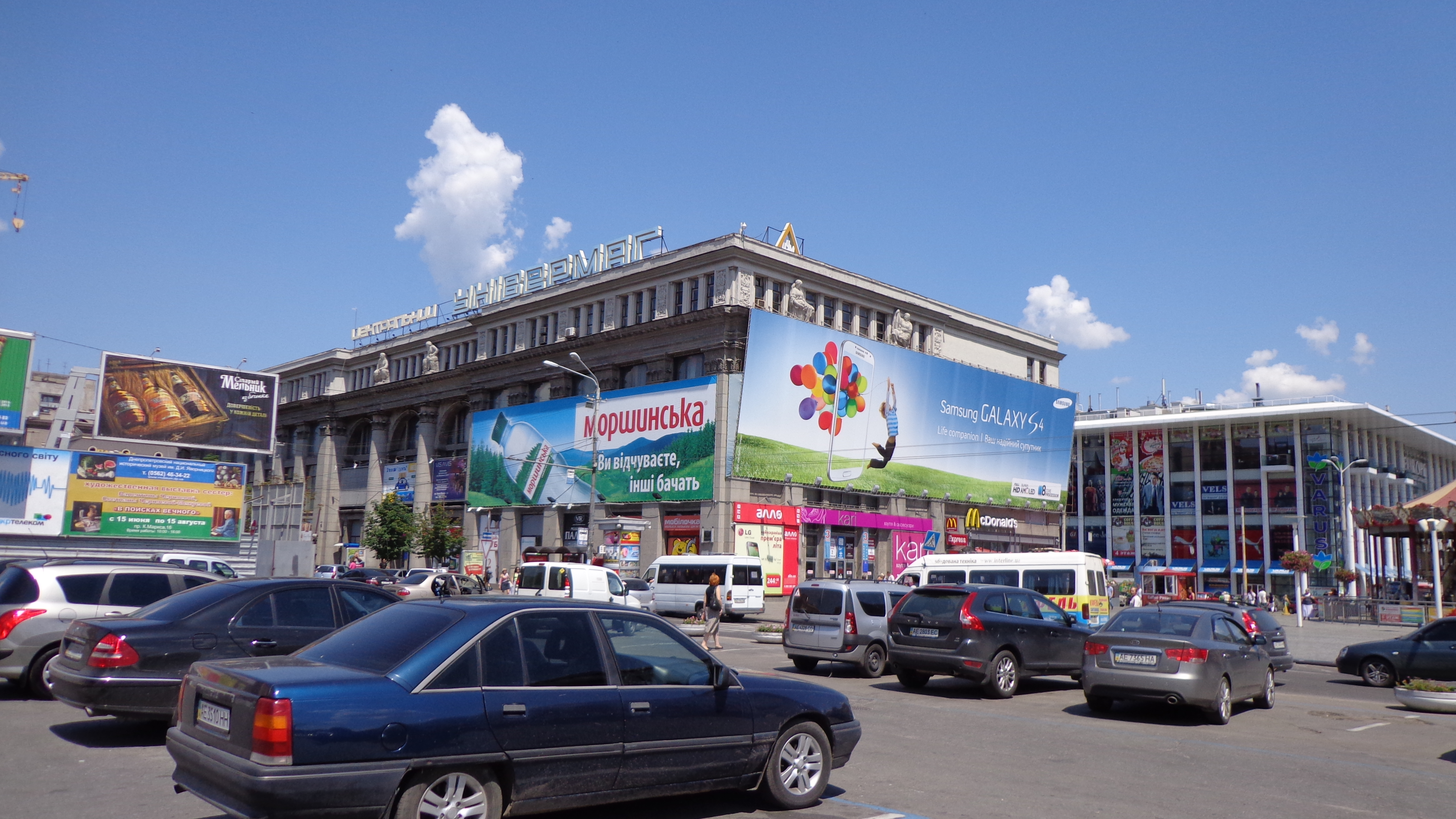 The Central Universal Department Store (ukrainian Центра́льний універса́льний магази́н) of Dnepropetrowsk